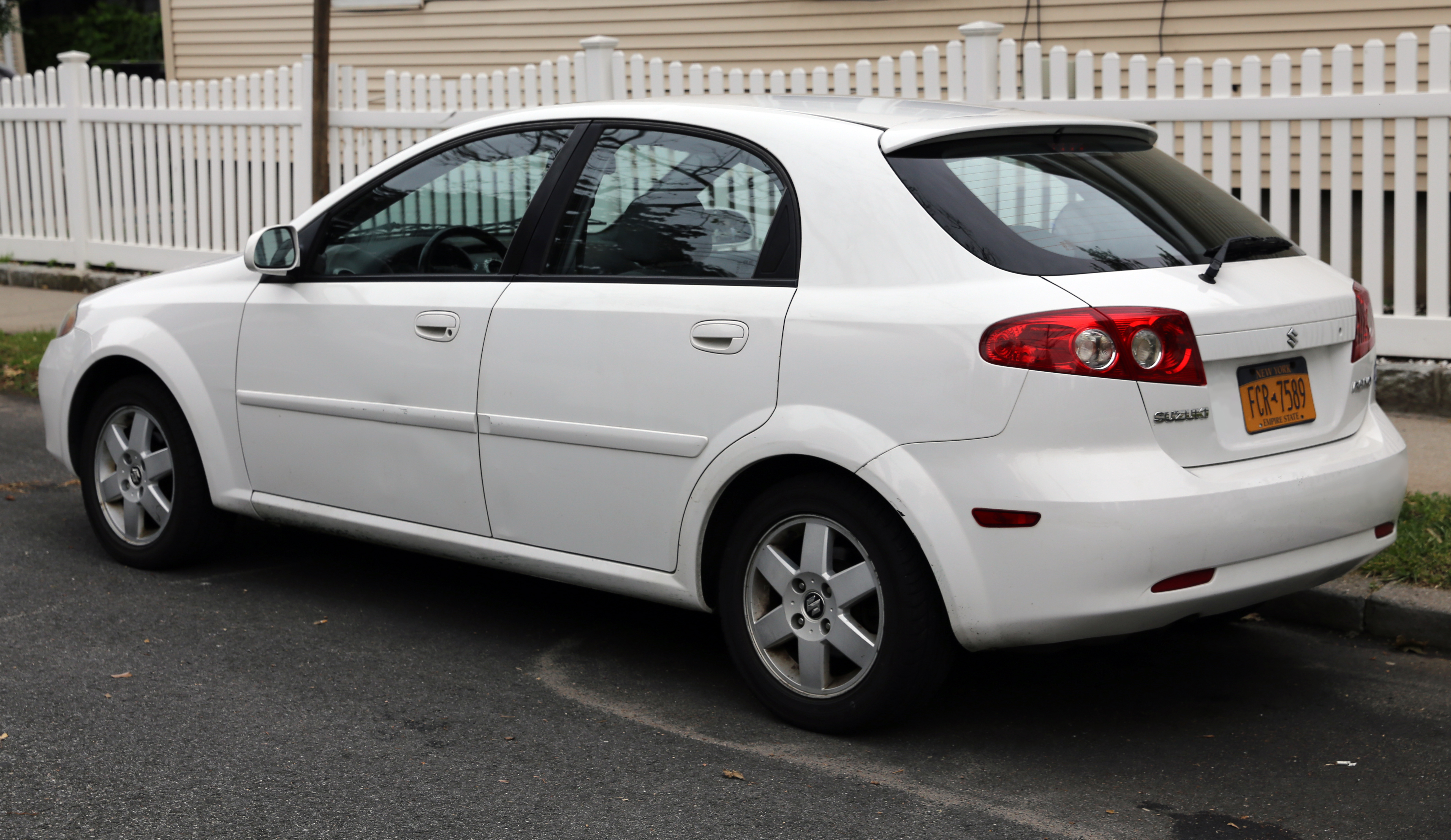 A 2005 Suzuki Reno LX (US version of the Daewoo Lacetti hatchback).